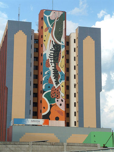 Building in Cuiabá, Brazil.